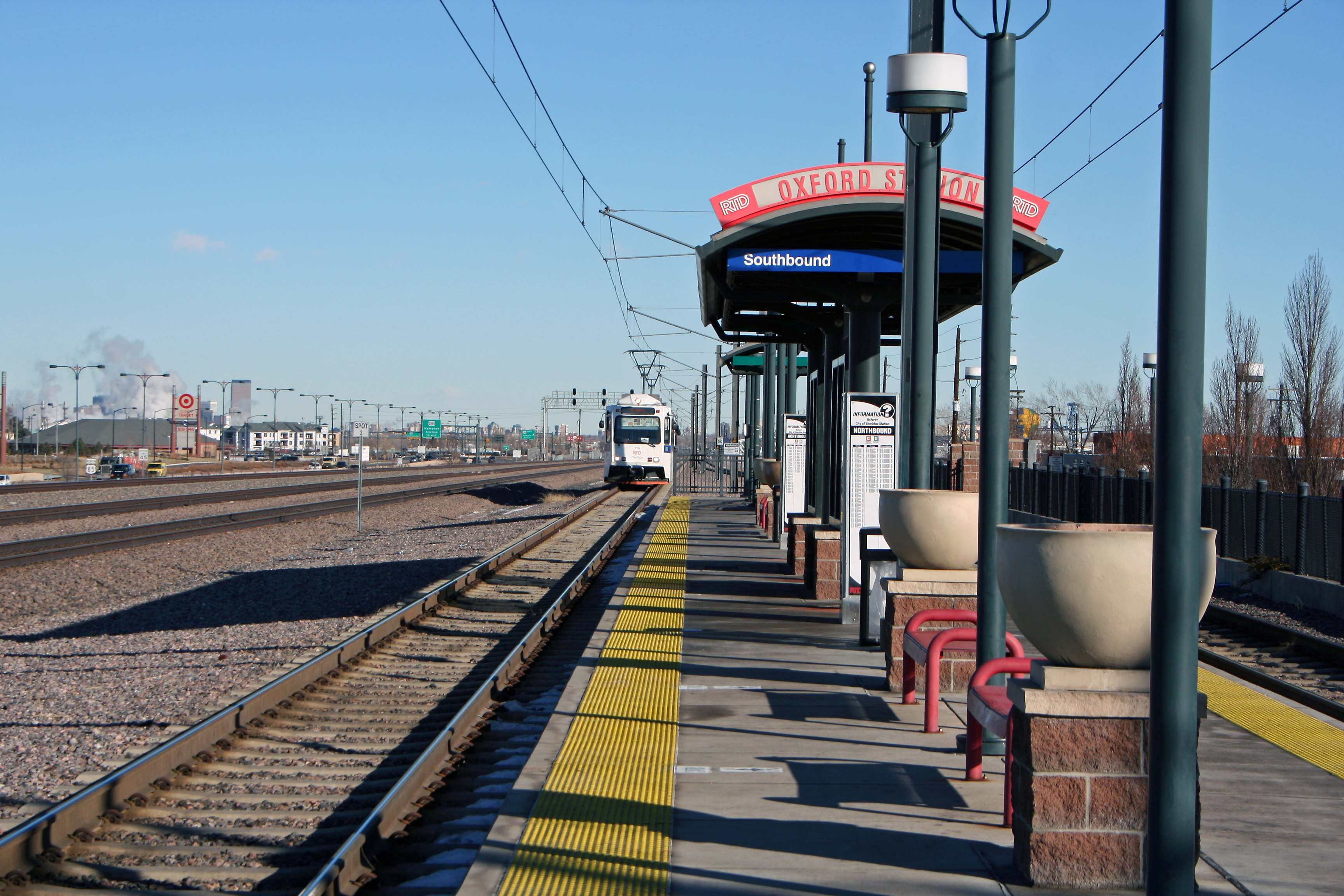 The Oxford/City of Sheridan Light Rail stop in Sheridan, Colorado